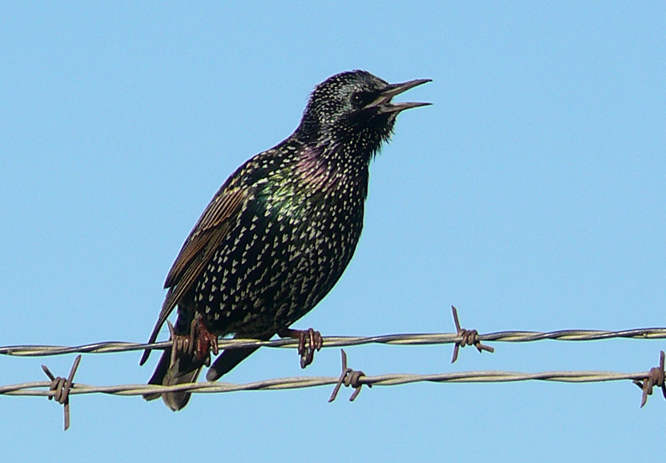 European Starling Sturnus vulgaris, male in winter plumage. California, USA.